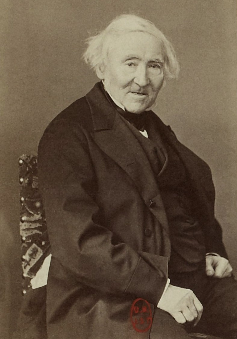 Auguste Couder (1790-1873), french painter.